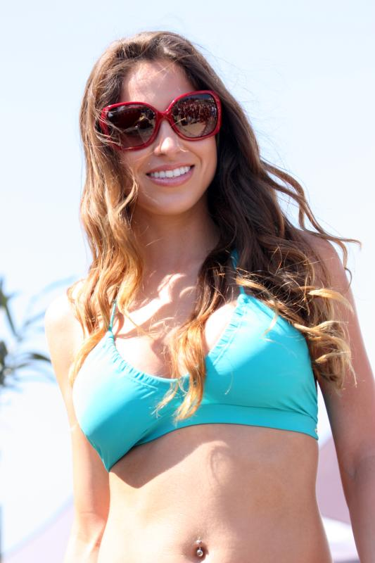 a good view of those Oakley sunglasses and bikini - also a belly button piercing